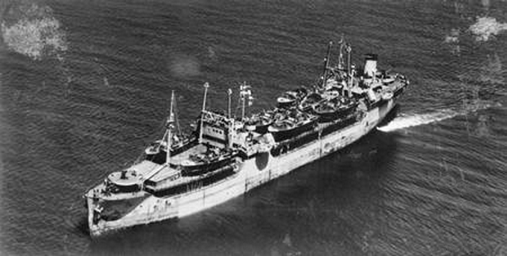 Aerial port bow view of the motor tanker Esso Manhattan. She had been fitted with flying decks enabling her to carry seven motor torpedo boats (PT boats) as deck cargo which were off-loaded at Brisbane, Australia, in this case. Note the 3 inch AA gun forward, 5 inch gun aft and the 20 mm Oerlikon AA guns in the superstructure forward and aft. Esso Manhattan was a T2-SE-A1 tanker built at Sun Shipbuilding Company (No. 342), Chester, Pennsylvania (USA), for Standard Oil of New Jersey. She broke in two off New York on 29 March 1943. Both sections were towed in, rejoined and returned to service June 1943. She was finally broken up at Hualien, Taiwan, in 1974 by Chou's Iron & Steel Co., Ltd.